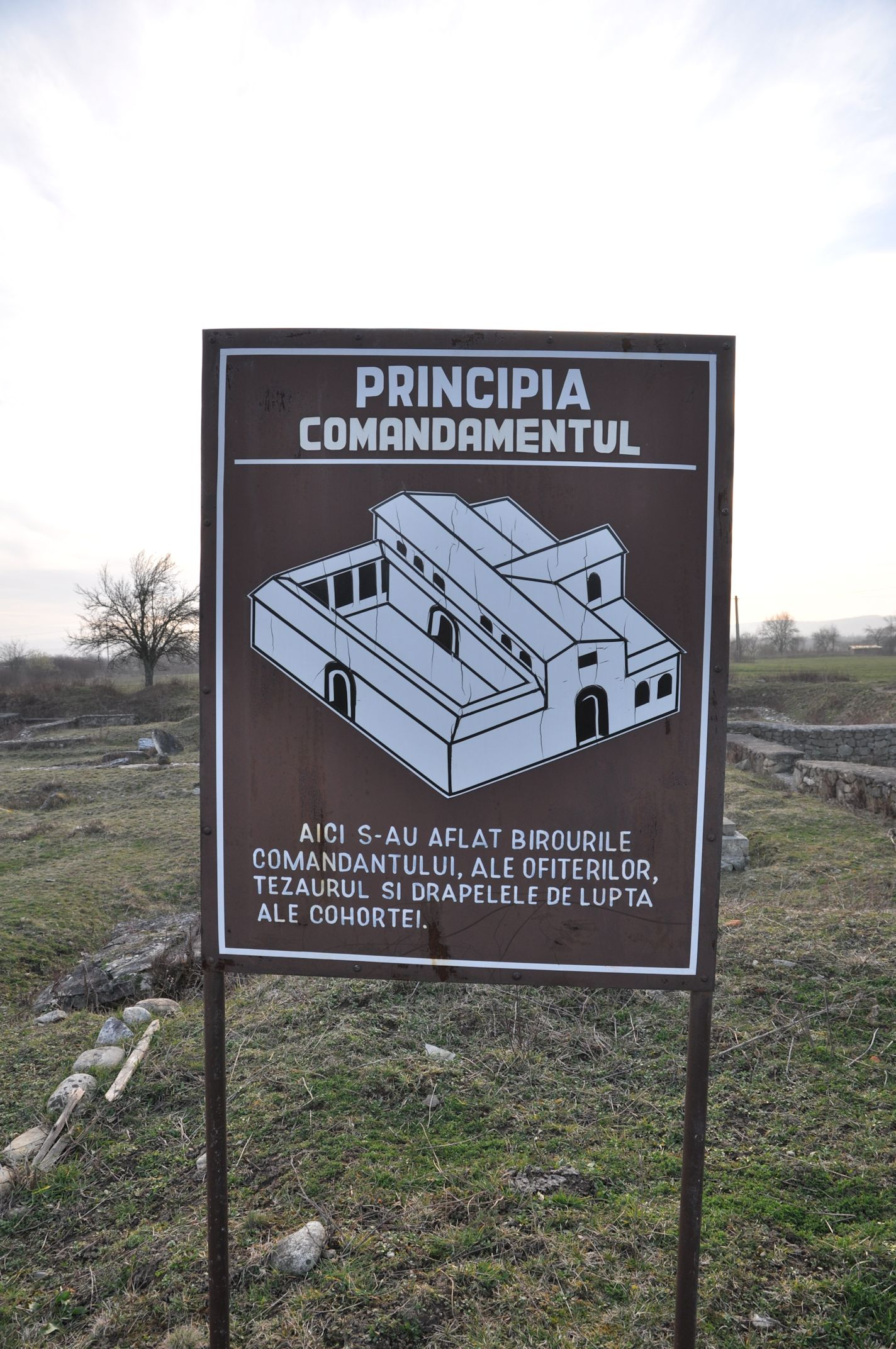 Roman fort Tibiscum - present day Jupa, Romania.